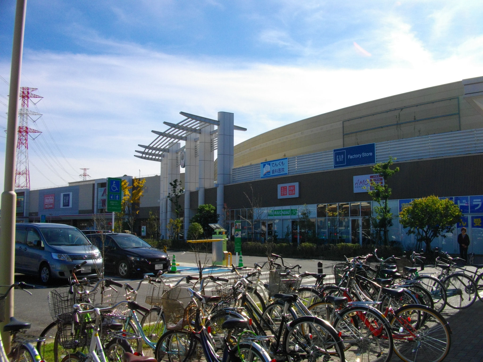 AEON Town Oyumino